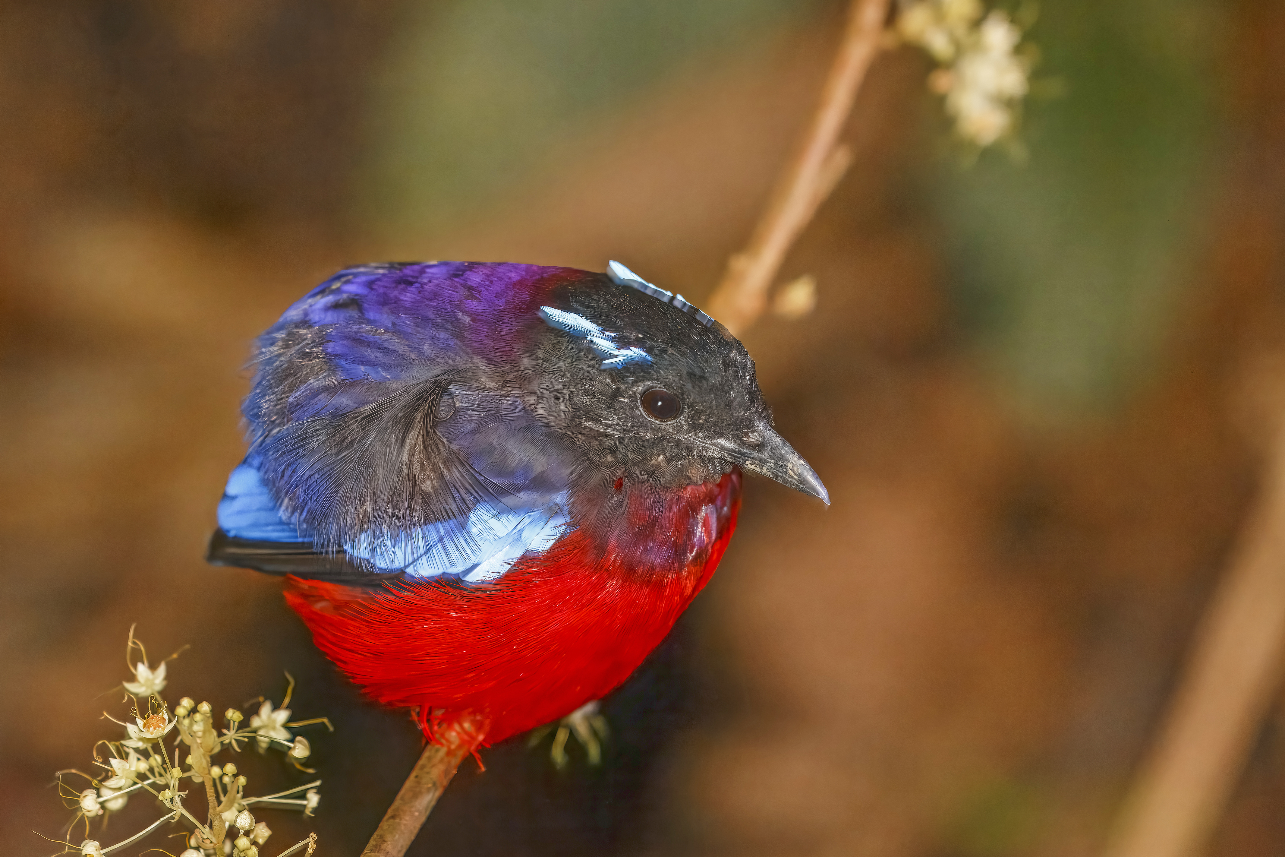 Black-crowned pitta (Pitta ussheri), Sabah, Borneo, Malaysia